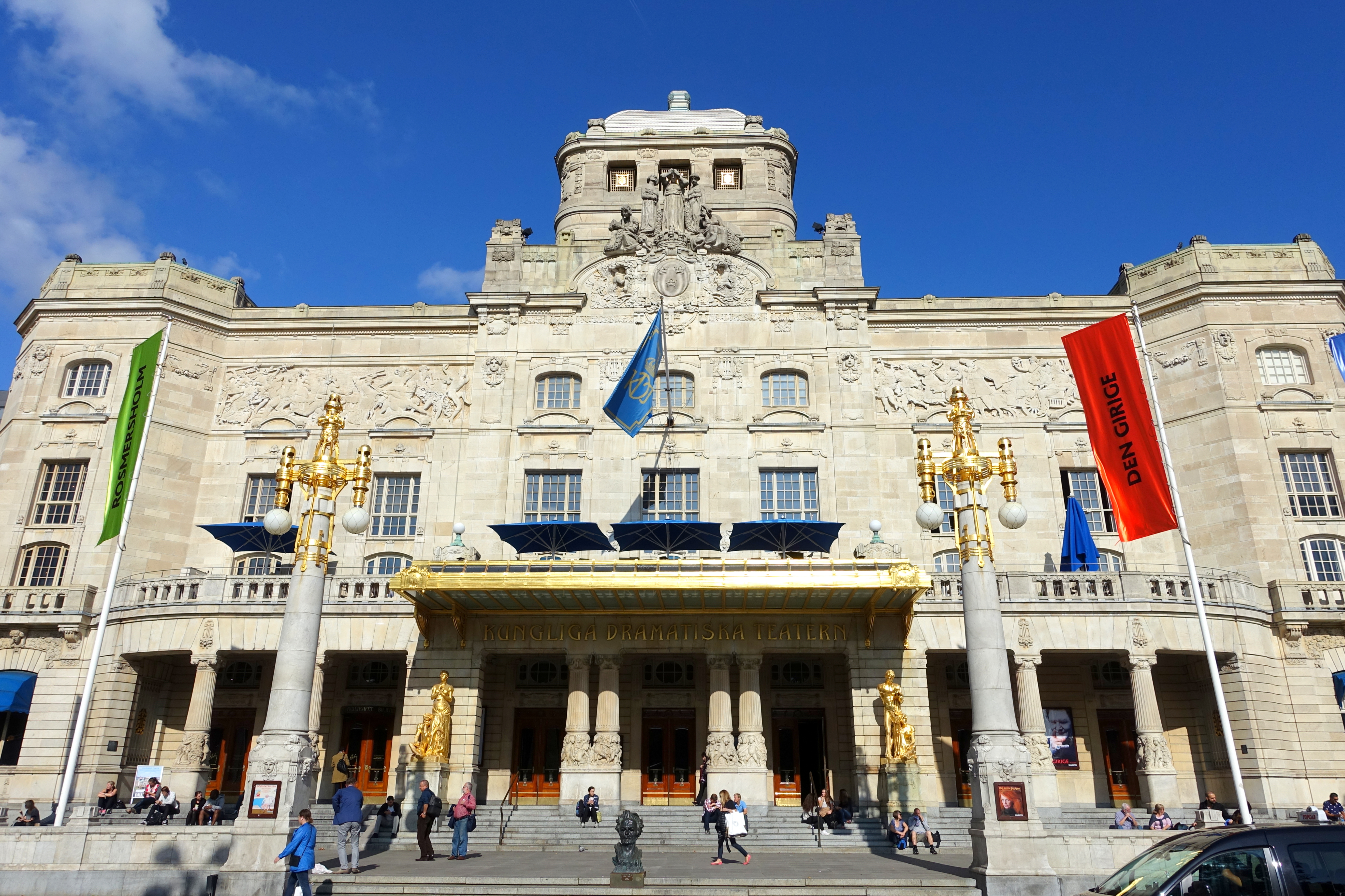 Kungliga Dramatiska Teatern - Stockholm, Sweden.